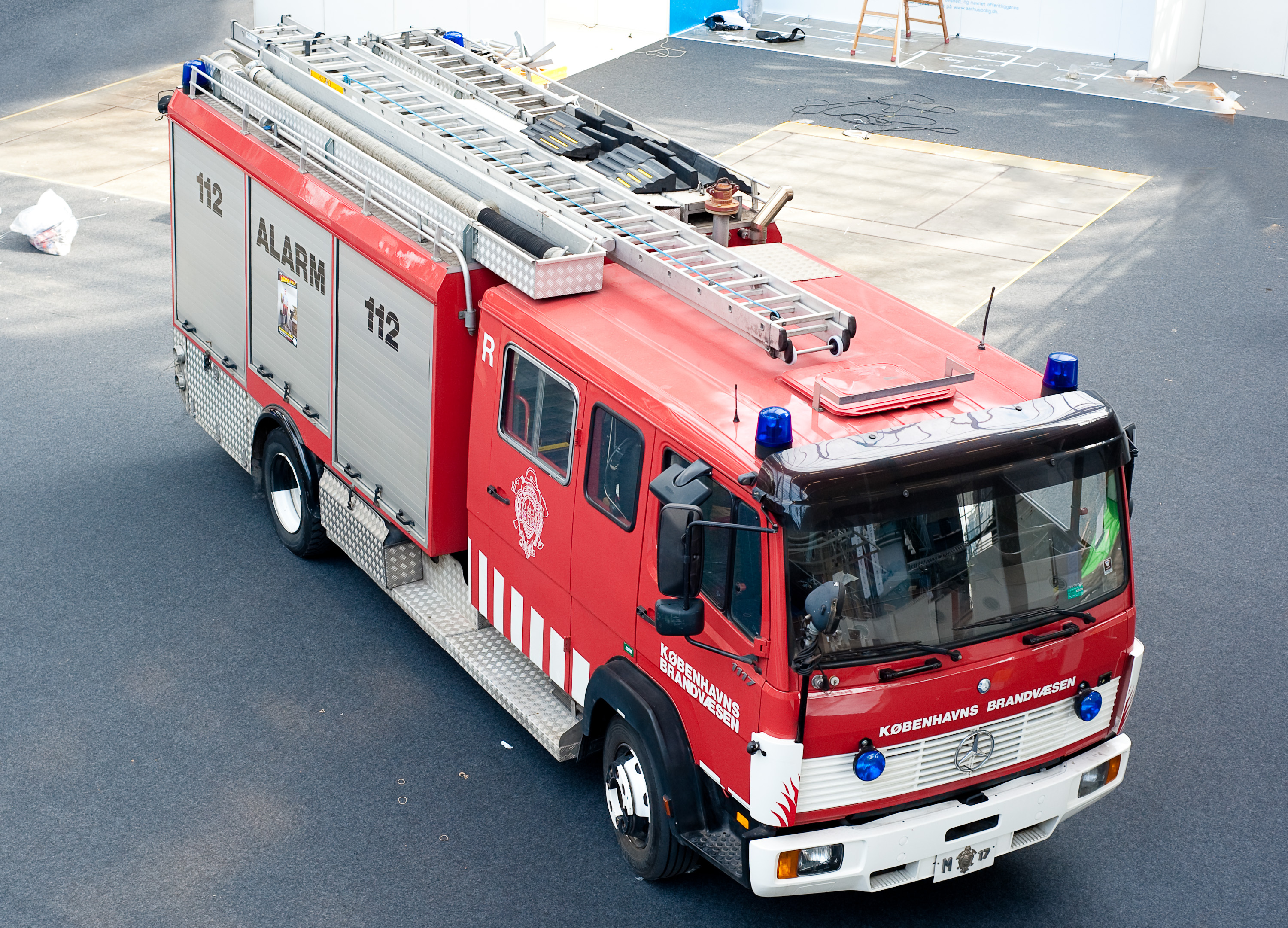 Copenhagen Firebrigade M-17 from a top/front view. It's based in the Mercedes Benz LP-1117 chassis/frame as far as I can tell.